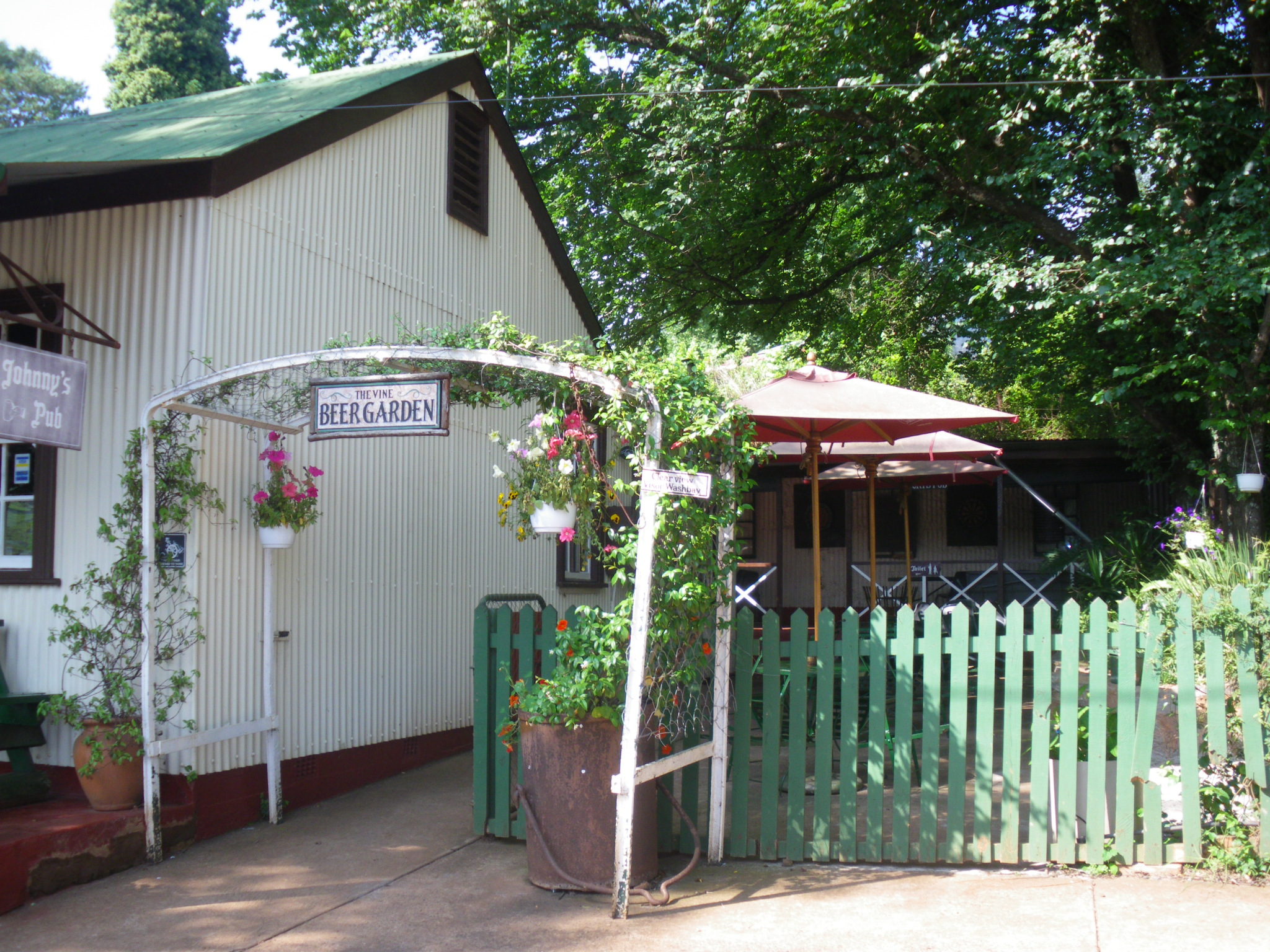 Pilgrim's Rest, Mpumalanga, South Africa